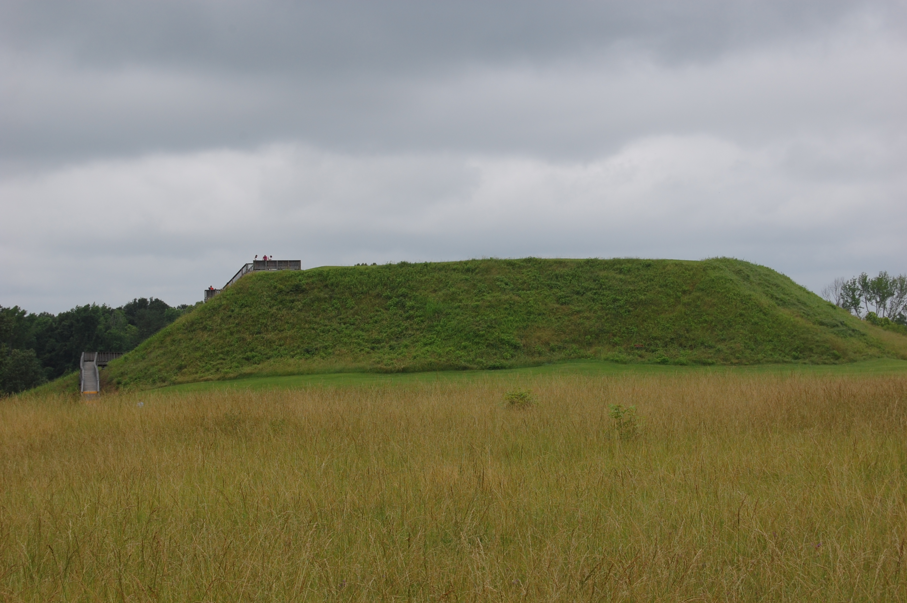 Great Temple Mound at Ocmulgee National Monument